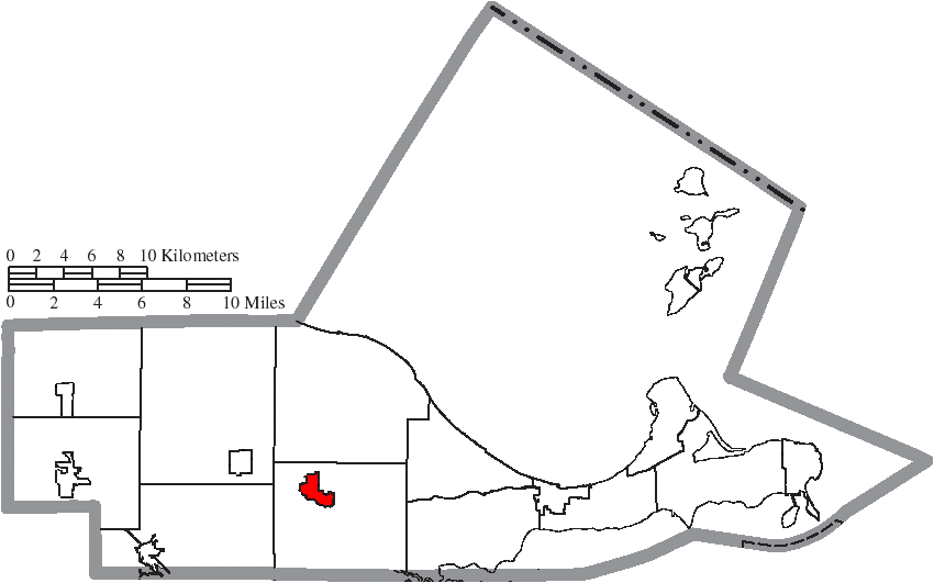 Map of the municipal and township boundaries of Ottawa County, Ohio, United States, as of the 2000 census, with the location of the village of Oak Harbor highlighted. Township borders are shown only in unincorporated areas in order to differentiate incorporated and unincorporated areas more clearly.